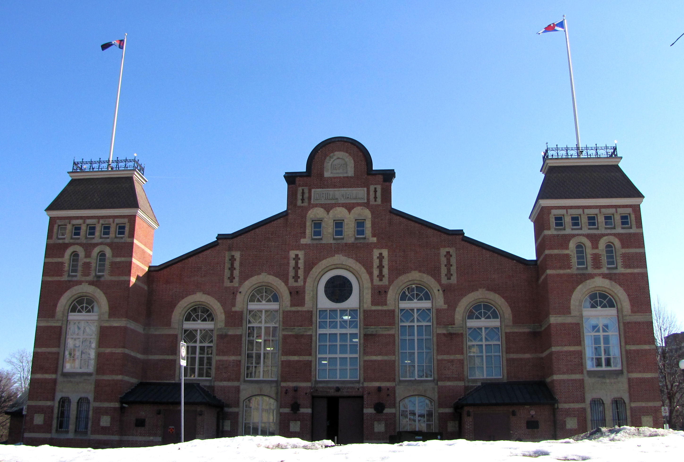 Drill Hall (1879), Cartier Square, Ottawa, Ontario, Canada